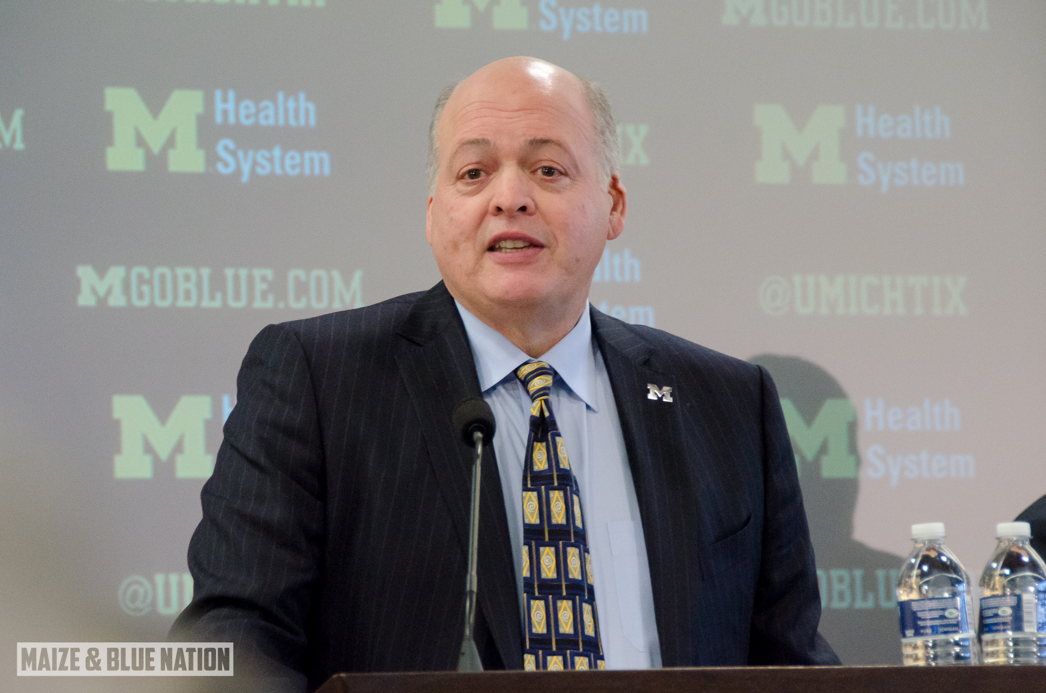 Jim Hackett at the University of Michigan in 2014.